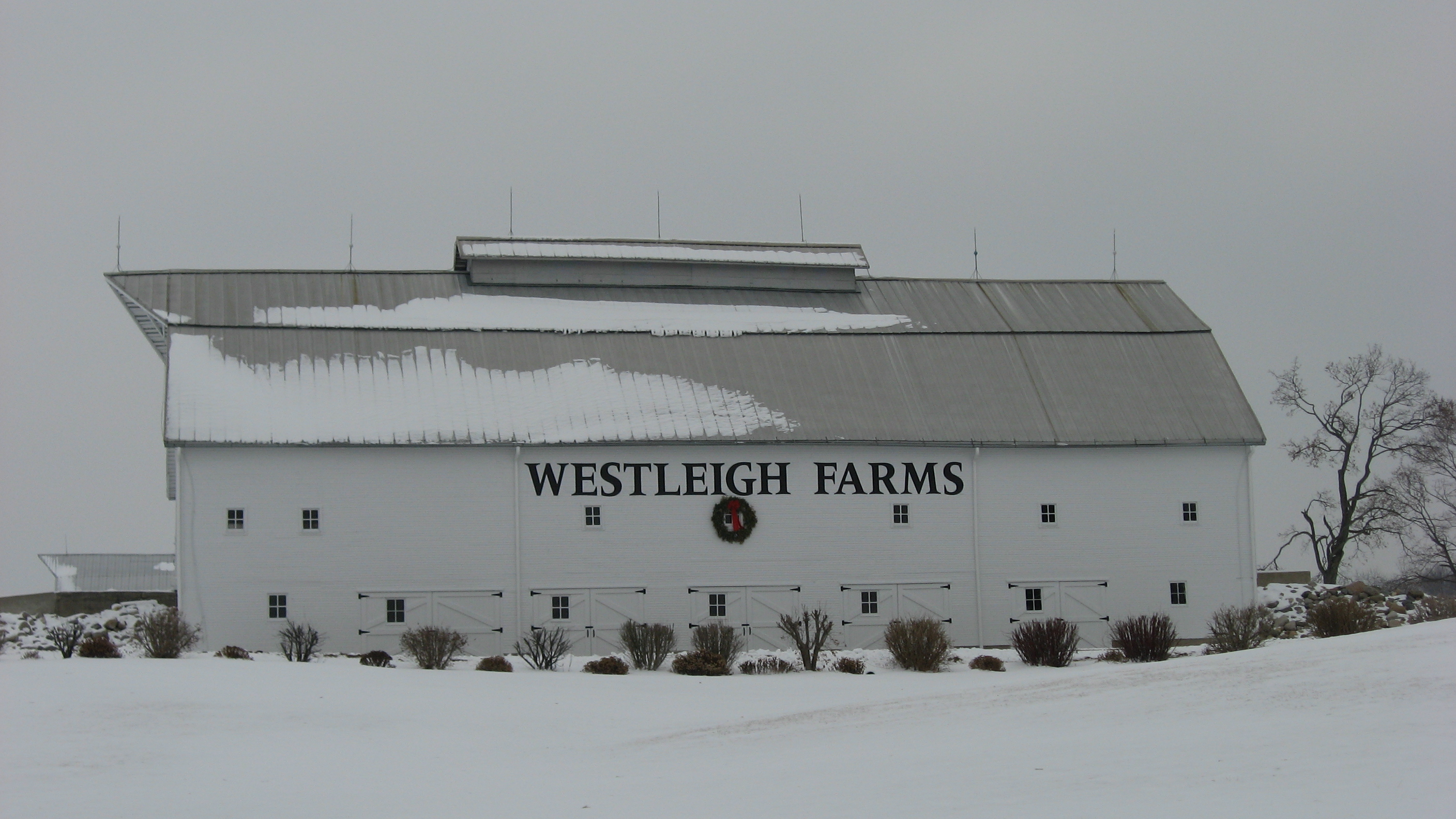 Barn at the Westleigh Farms, located at 2107 S. Frances Slocum Trail southeast of Peru in Butler Township, Miami County, Indiana, United States. Built in 1900, it is listed on the National Register of Historic Places.